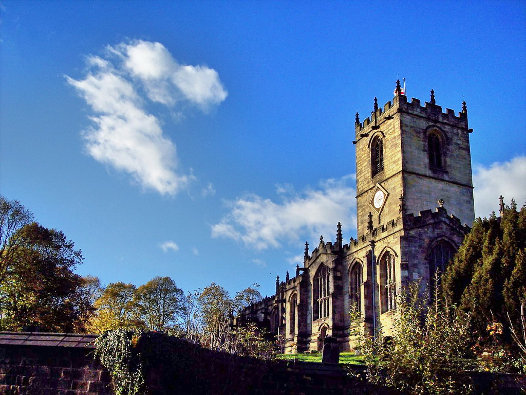 Ecclesfield Church in Ecclesfield, Sheffield, United Kingdom.